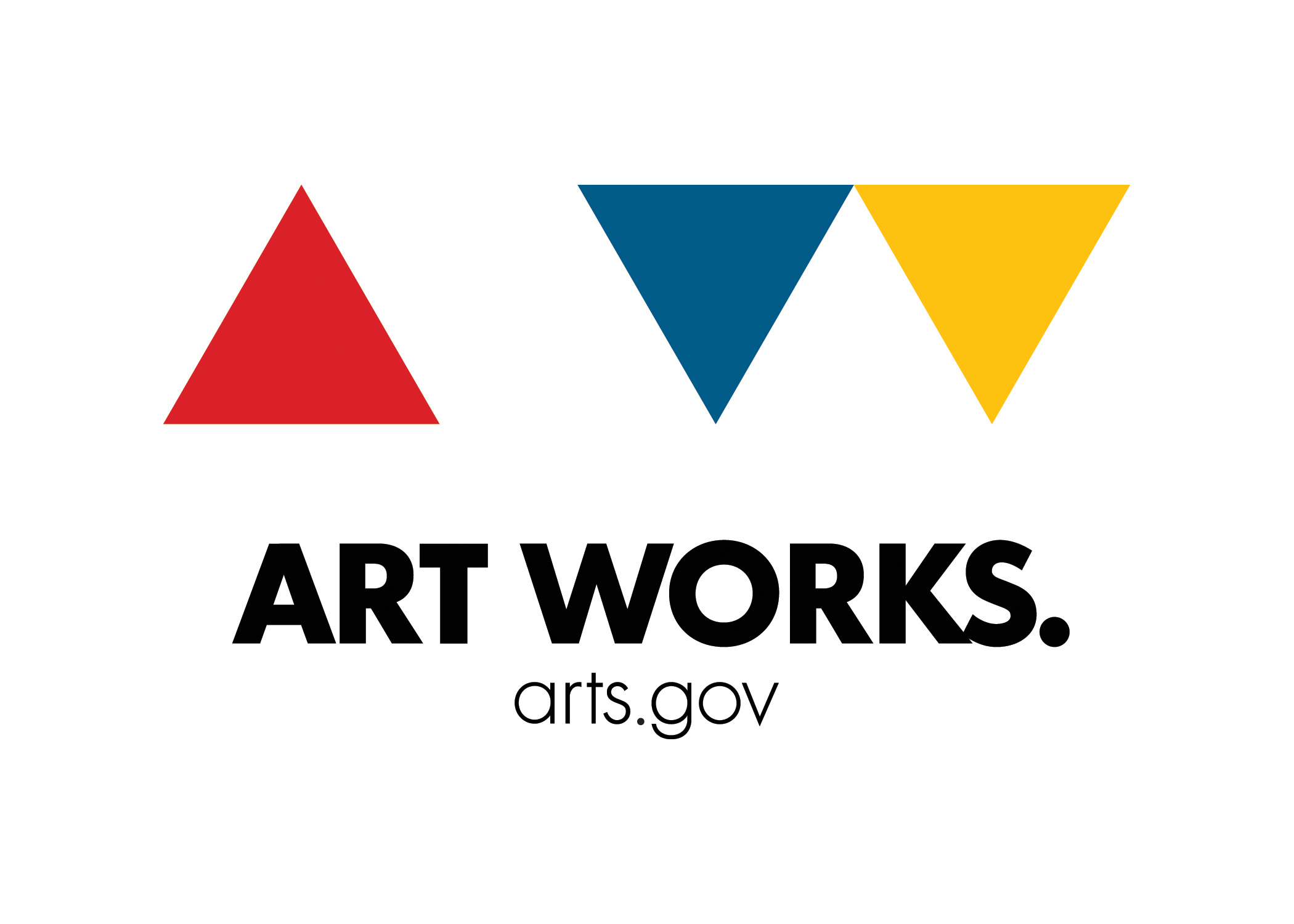 Official logo of the National Endowment for the Arts